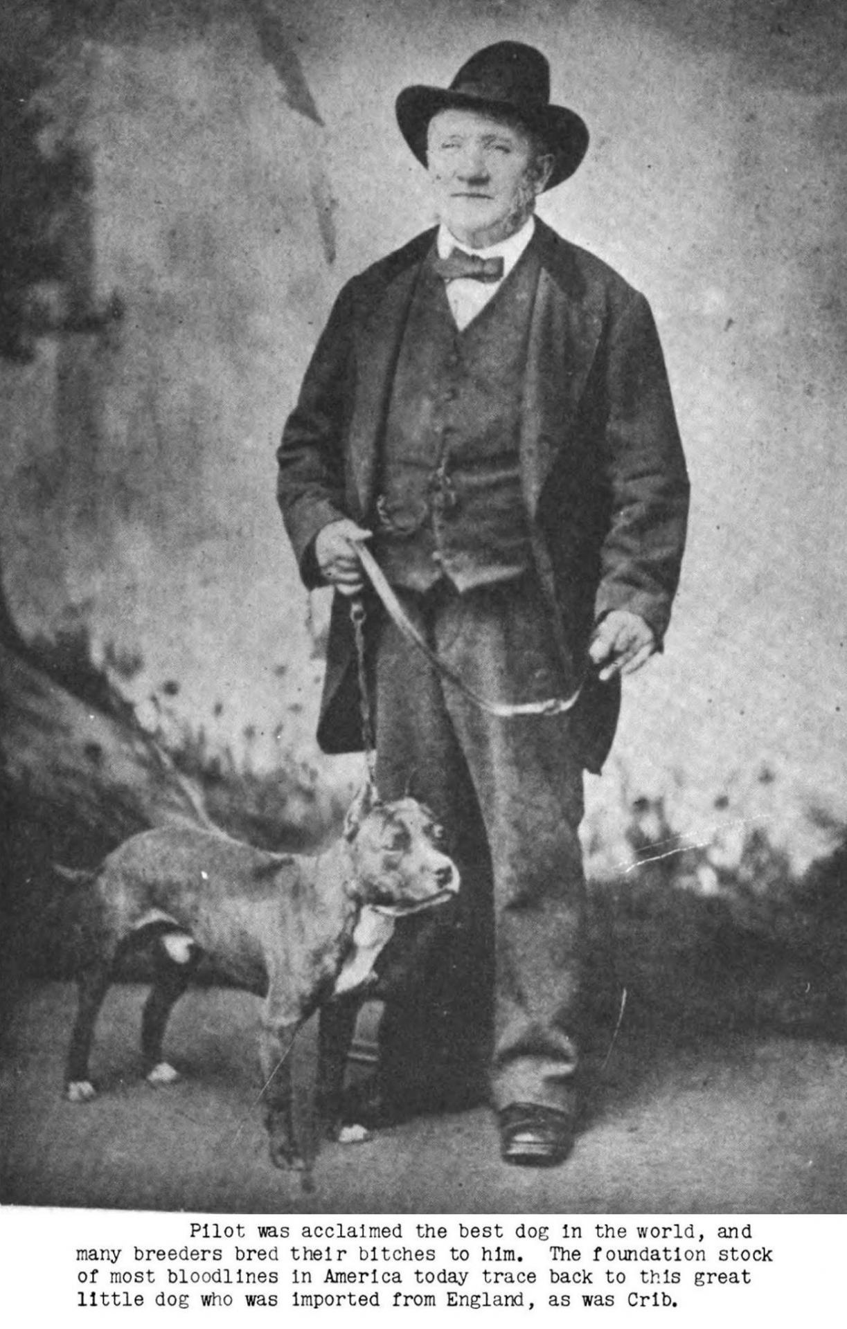 Charlie Lloyd and his dog "Pilot". Pilot was bred by John Holden of the Red Lion Inn, Park Street, Walsall, England. Pilot was brought to America by Charlie Lloyd. Gained fame when he defeated the dog "Louis Krieger's Crib" on October 19, 1881 for $1,000 a side. This dog is the ancestor of many modern American Pit Bull Terriers, including the famous "Colby's Pincher". Pilot was born in 1878. Pedigree online